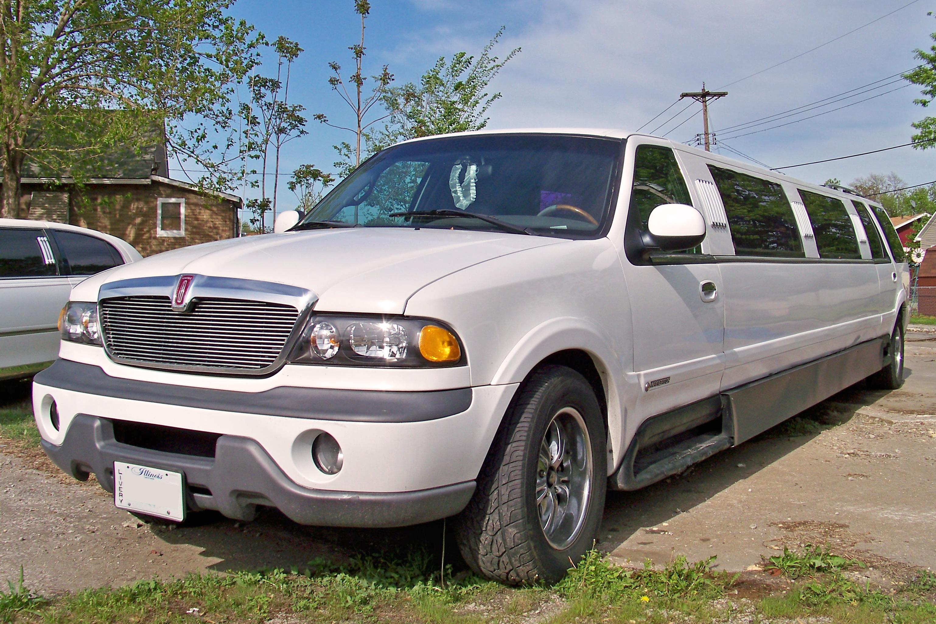 Lincoln Navigator limousine